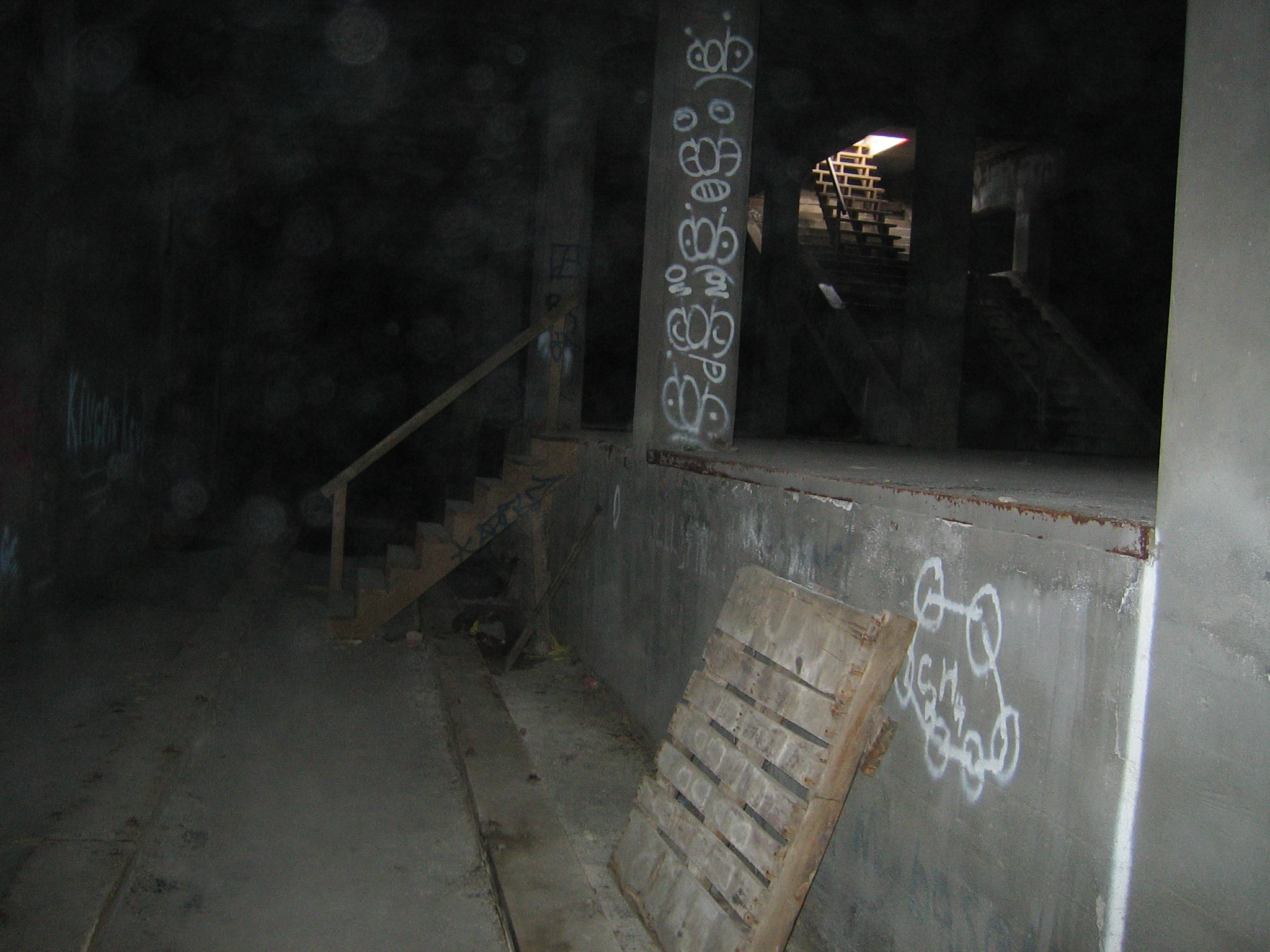 Author: Eric Platt (uploader) Summary: downtown Cincinnati Subway entrance